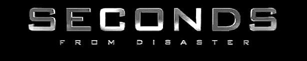 Logo of the T.V. show, Seconds From Disaster. Taken from this free video: Picture taken from Snagit.